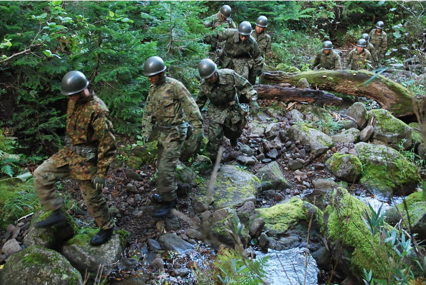 Japan Ground Self-Defense Force missing person investigations in Shari, Hokkaido, Japan